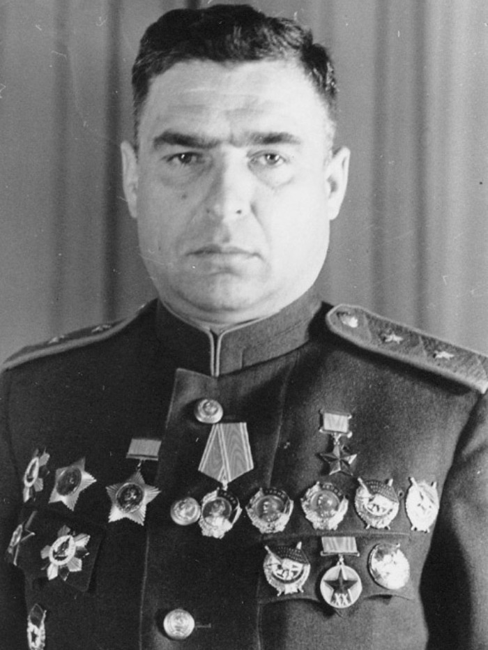 Hero of the Soviet Union Pavel Pavlovich Poluboyarov